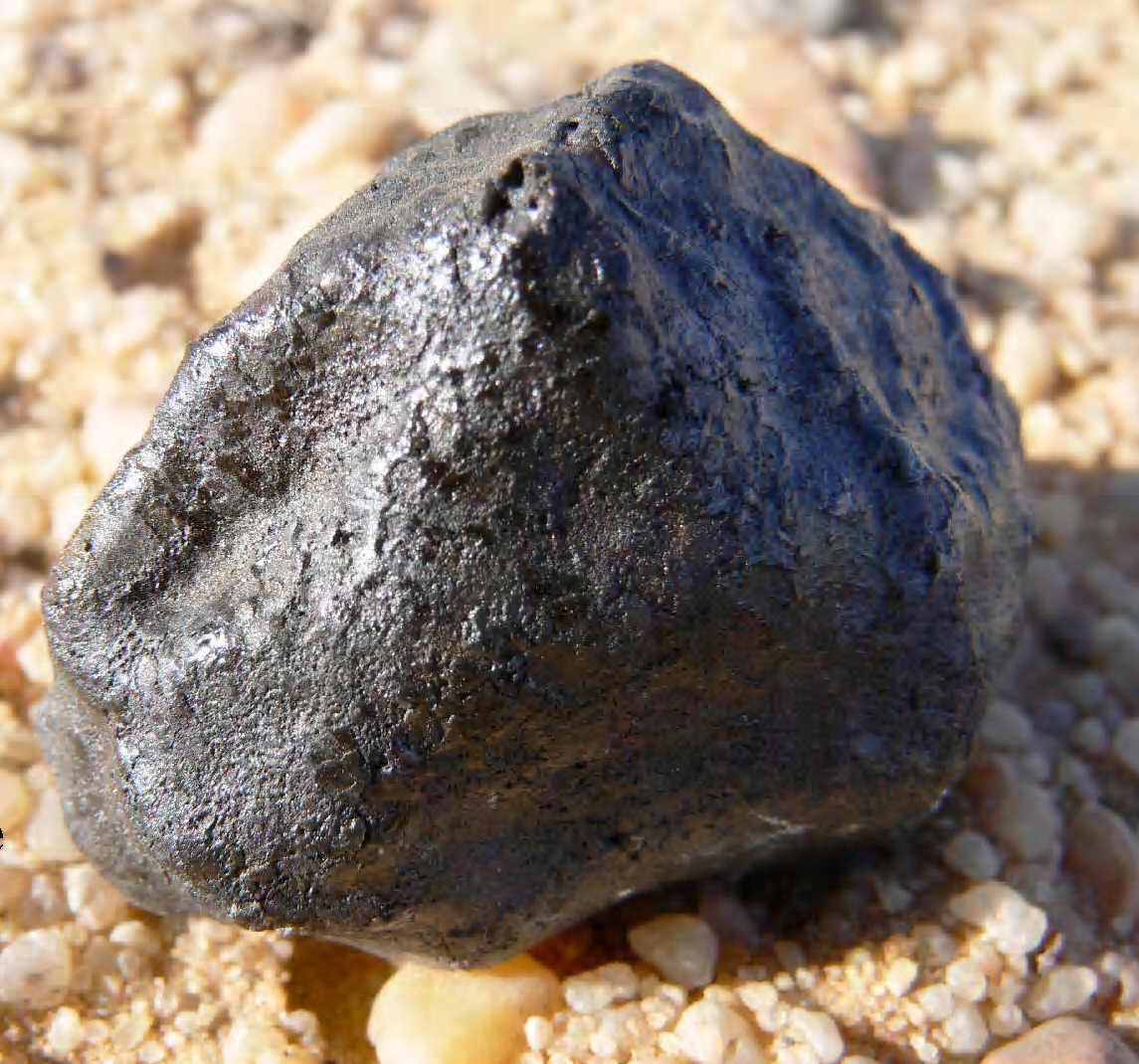 Of the larger recovered fragments of the asteroid and meteoroid 2008 TC3